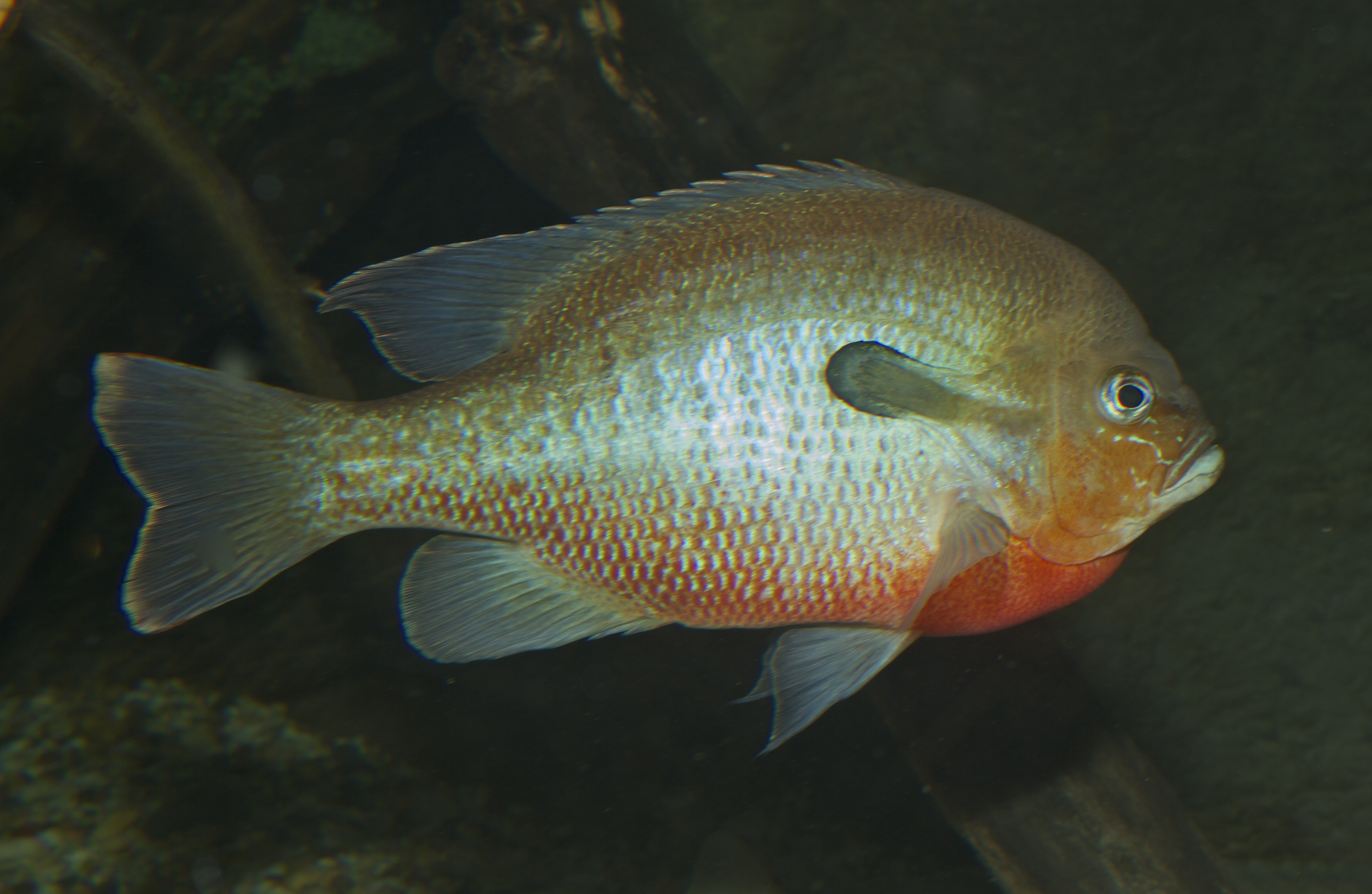 Redbreast sunfish (Lepomis auritus)